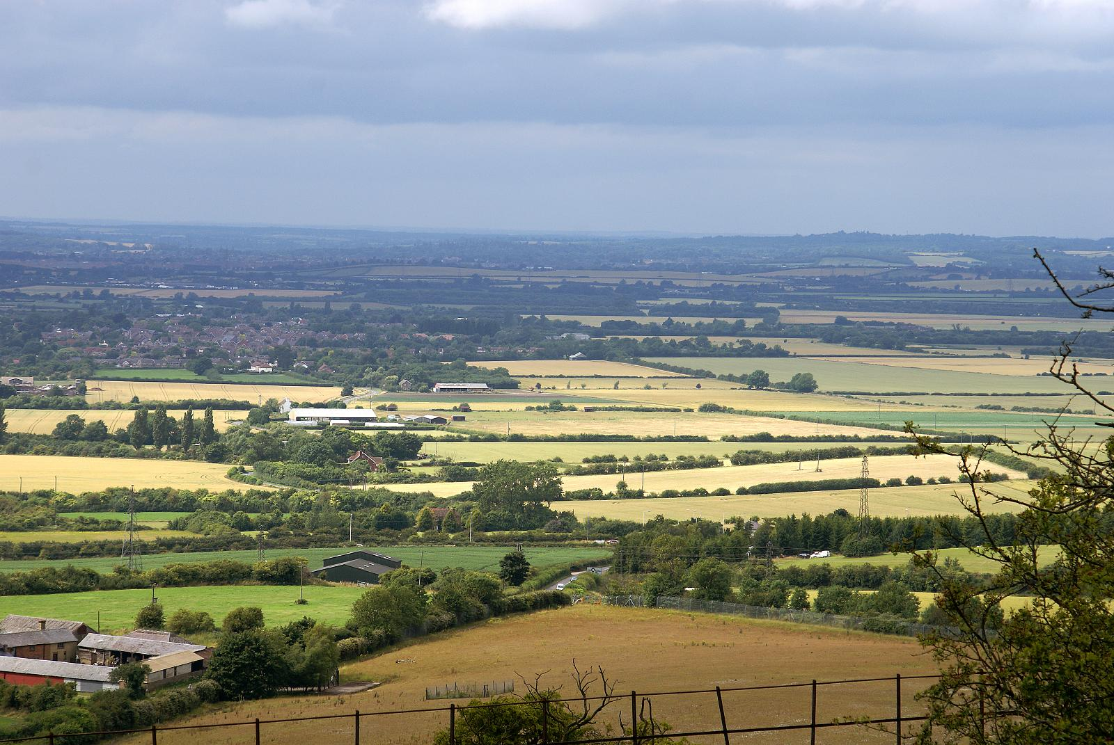 View of the Vale of Aylesbury from Whipsnade Zoo.